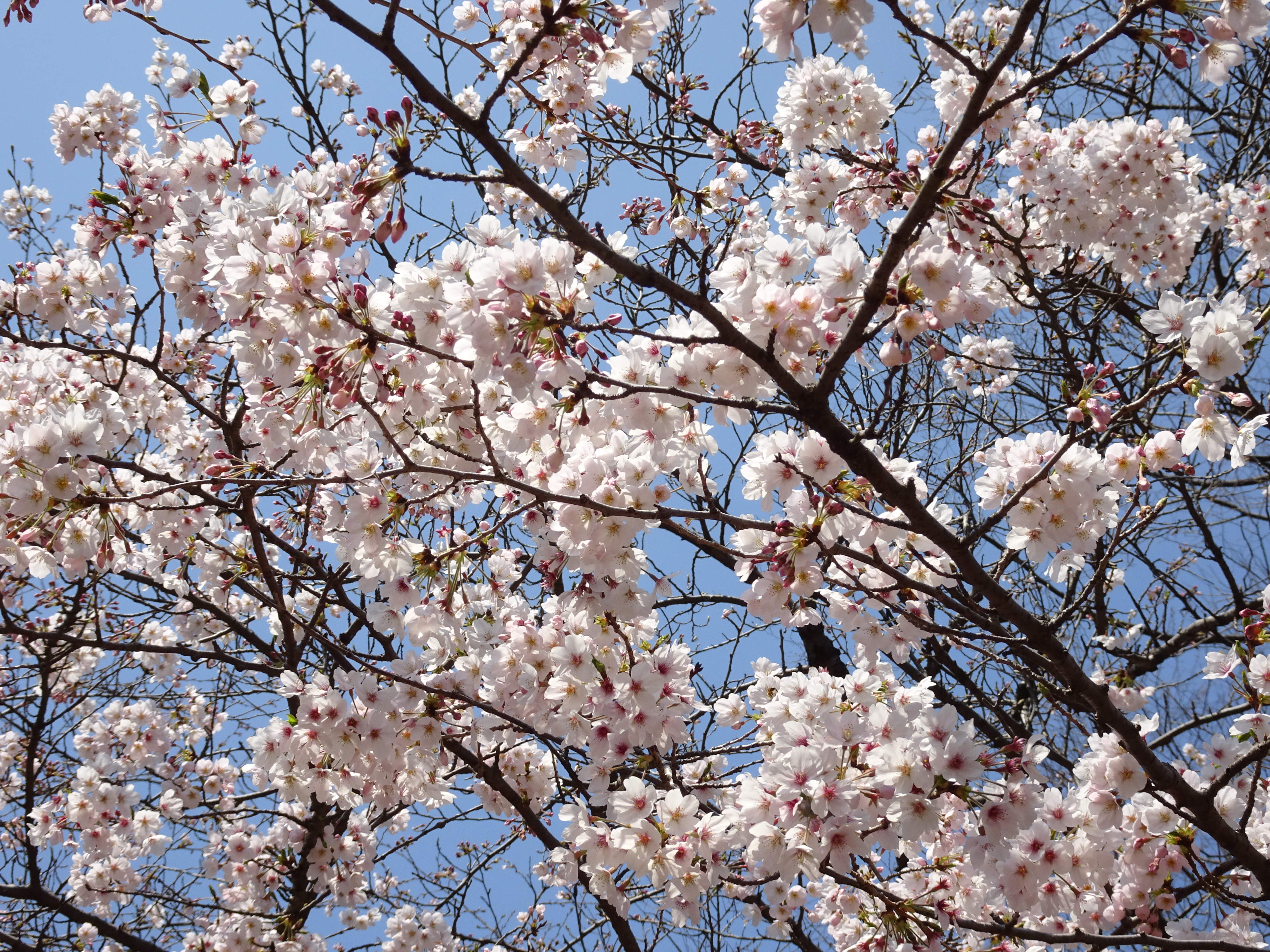 Cherry blossoms in Yoyogi Park, Tokyo